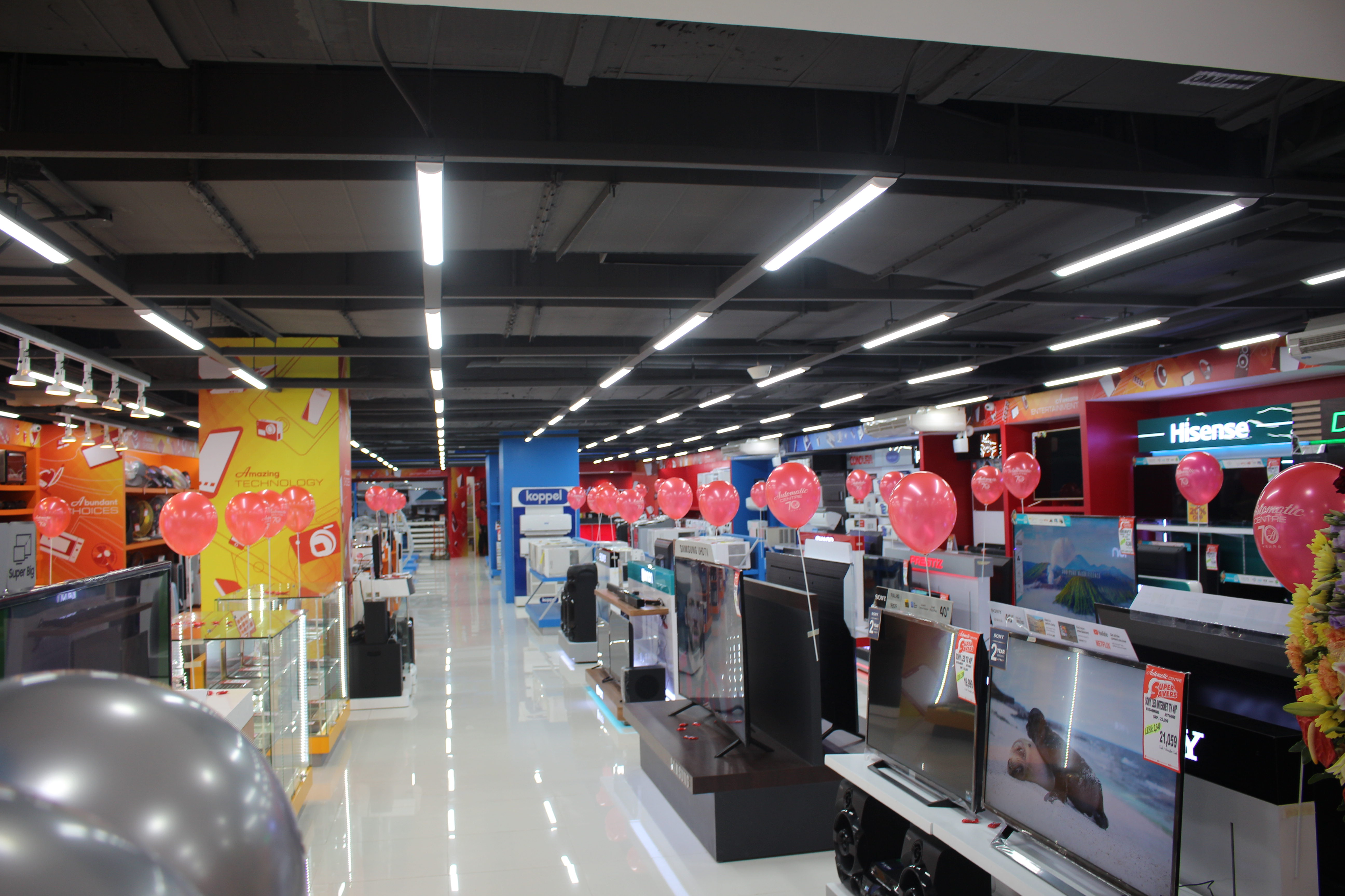 Inside an Automatic Centre store in Glorietta, Makati